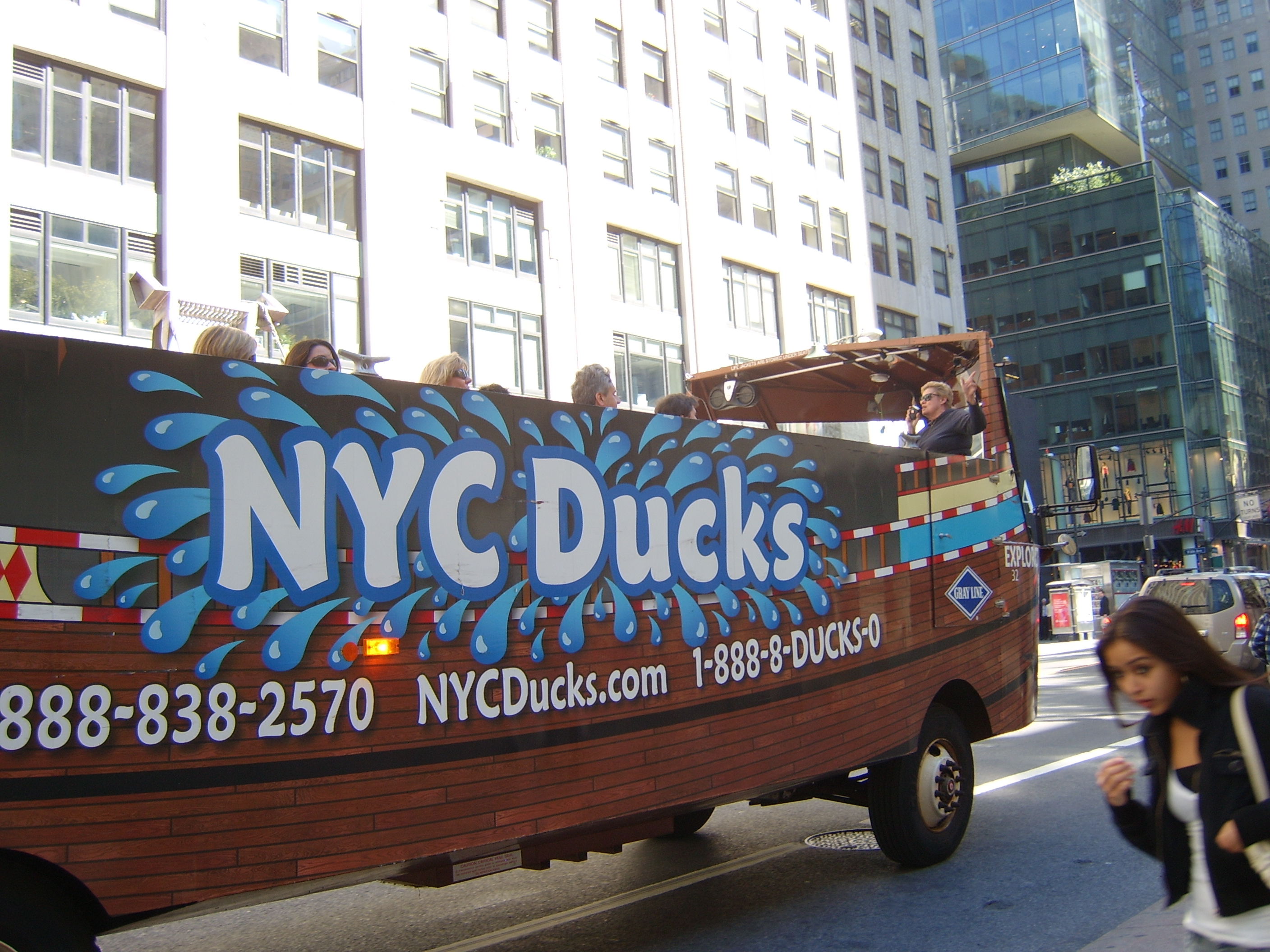 Manhattan, New York City